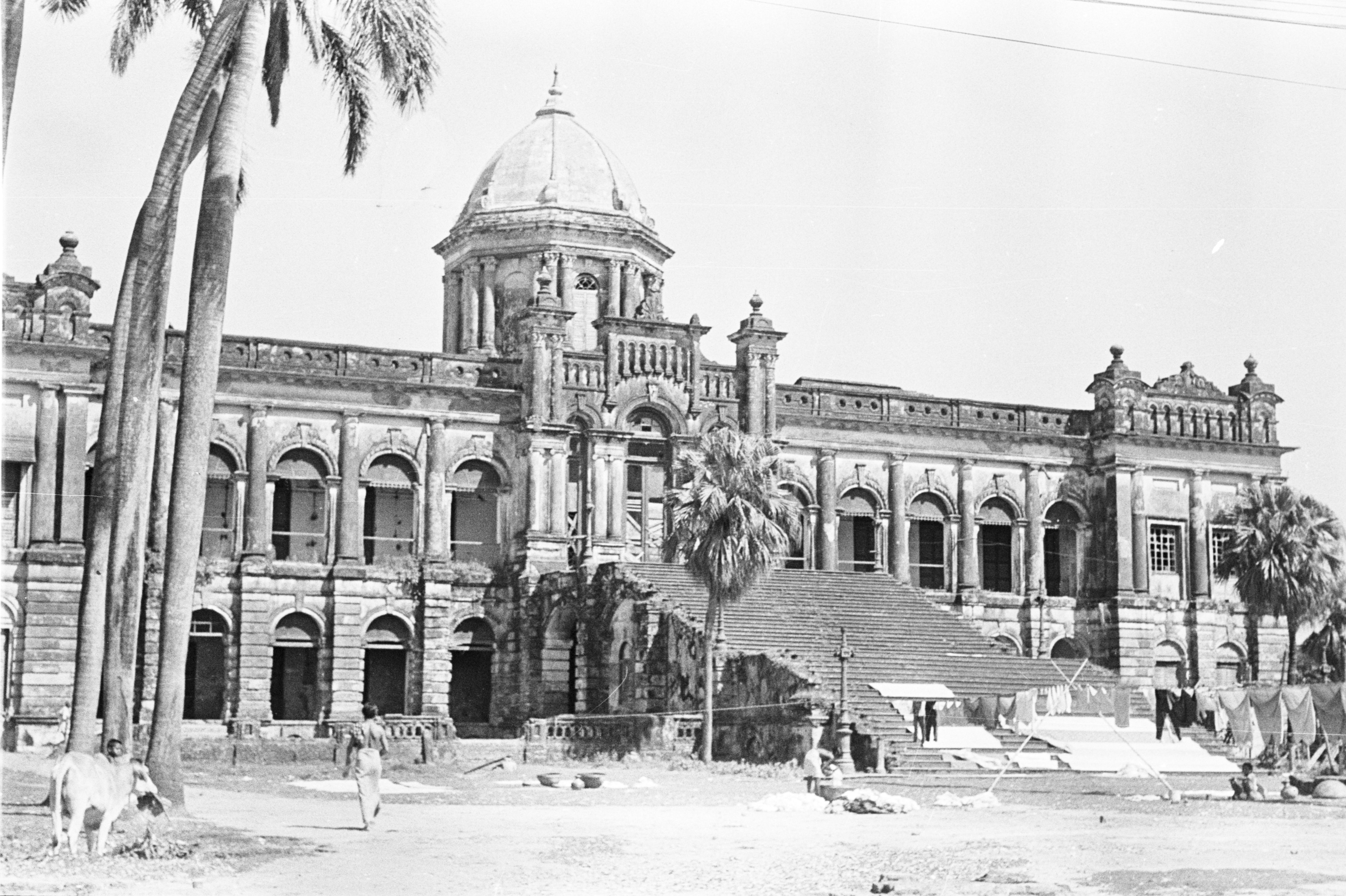 Ahsan Manzil, the palace of the former Nawab, Dhaka, Bangladesh.